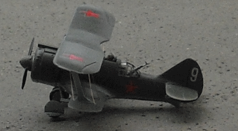 Kotscherigin DI-6Sh Model